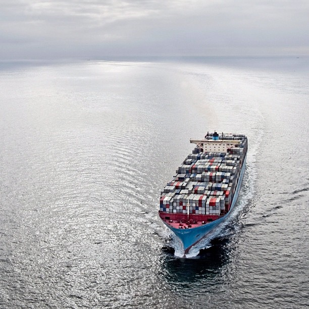 The 400m long Edith Maersk in Hong Kong, getting started on her long journey to Europe